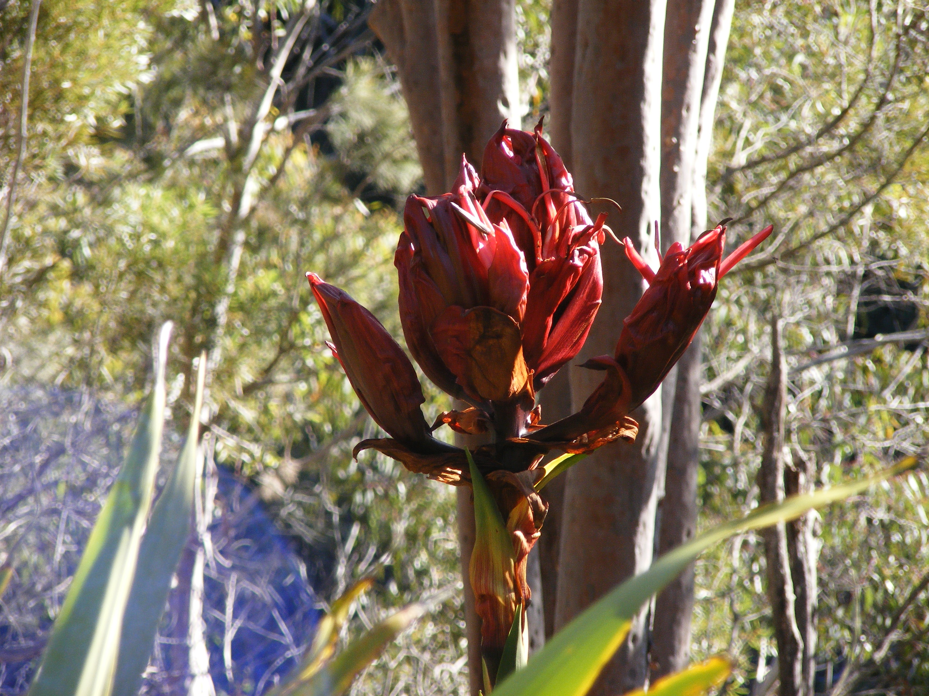 Heathcote National Park, Sydney, NSW, Australia